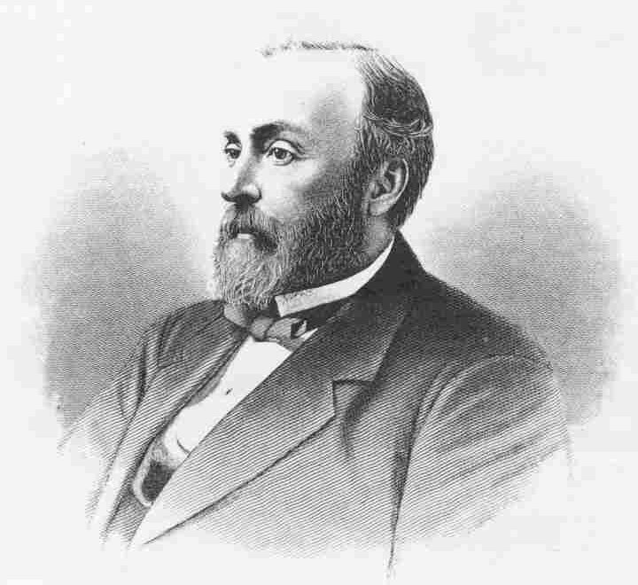 scanned sketch of James Ludington (1827-1891) from page 14 of titled book.